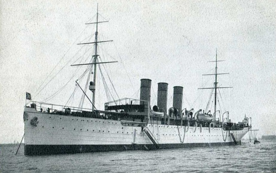 Training Ship "Okean" (Later "Komsomolets")